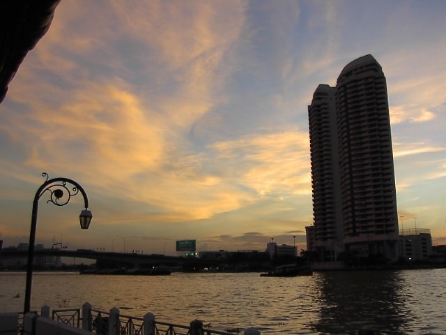 The Chao Phraya River in Bangkok, Thailand.